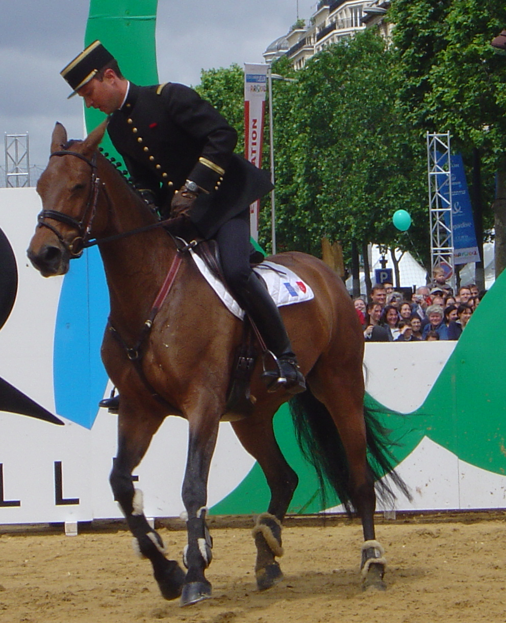 Arnaud Boiteau of the Cadre Noir Party promoting the candidacy of Paris to the 2012 Olympic Games., Avenue des Champs-Élysées, 5 June 2005